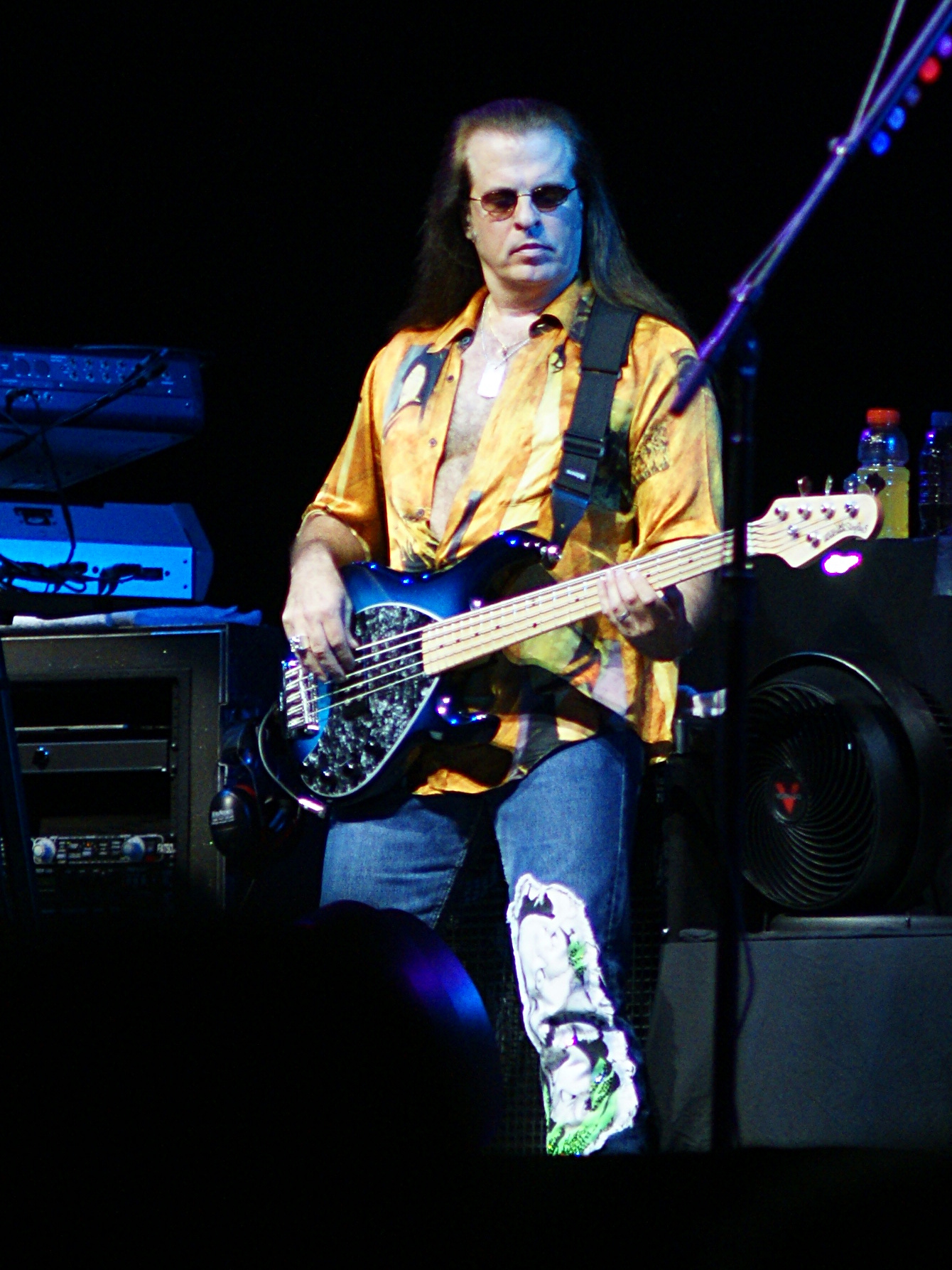 Bob Birch at the Elton John & Band concert in Wiesbaden, Germany